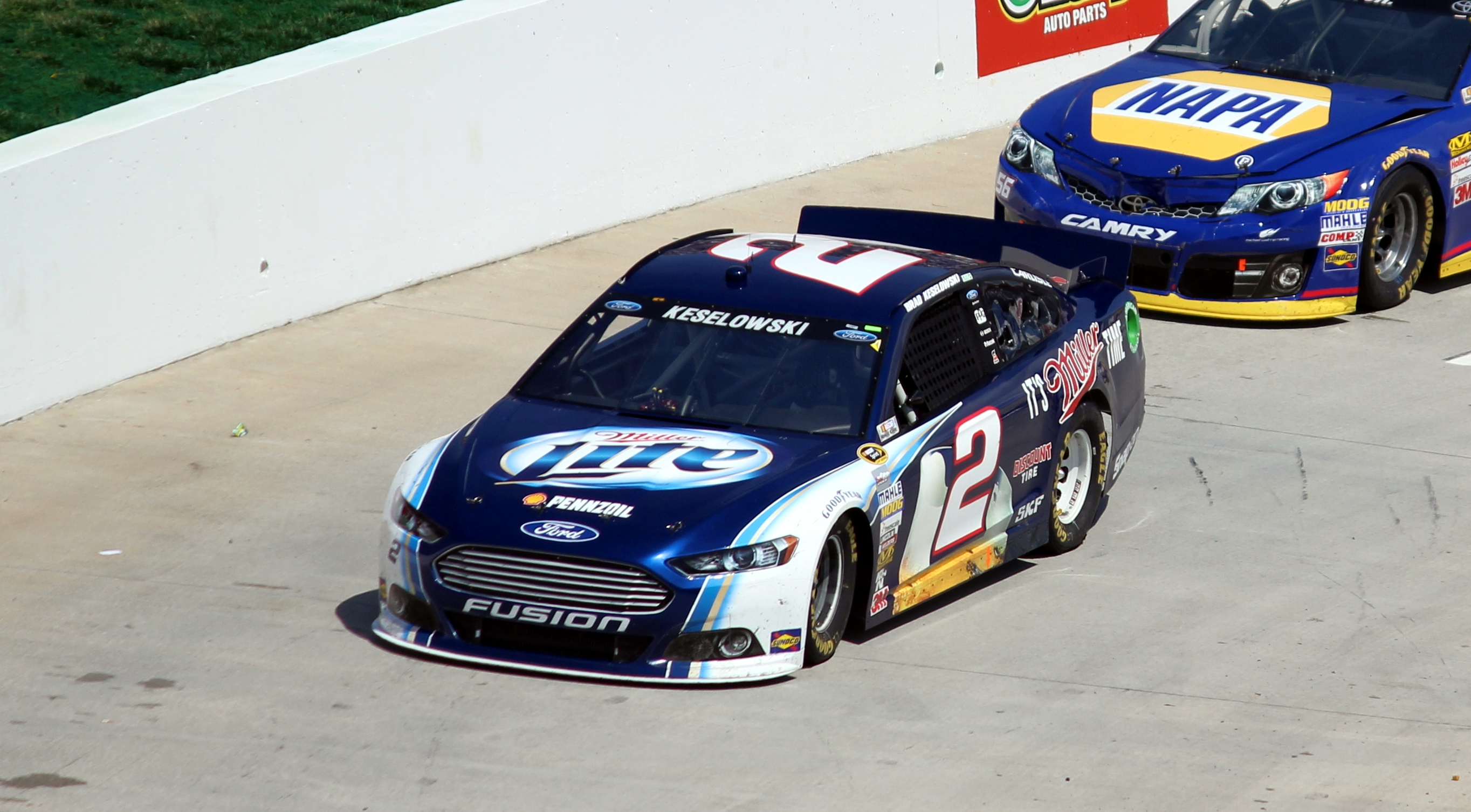 Brad Keselowski during the 2013 STP Gas Booster 500 at Martinsville Speedway. (April 7, 2013)